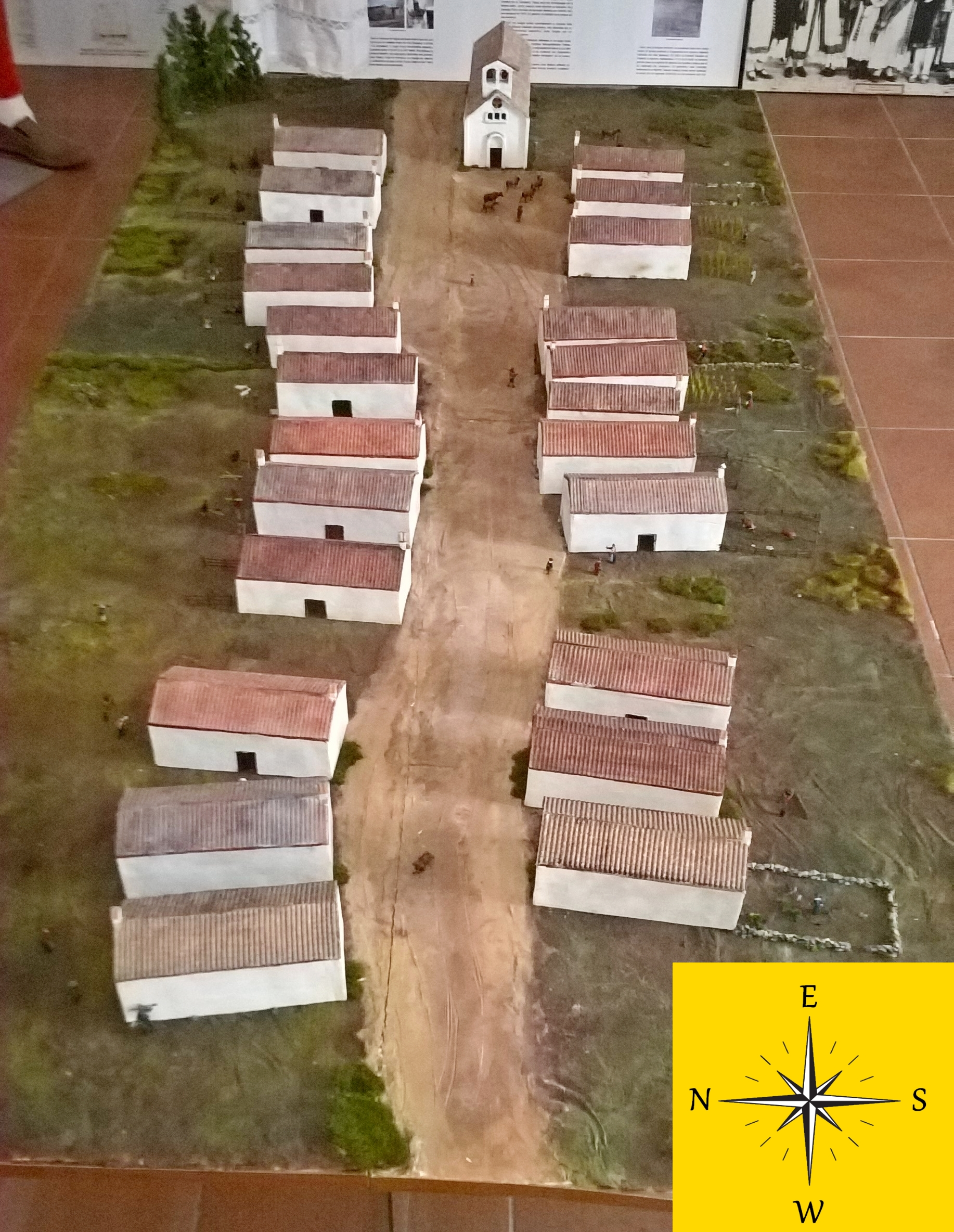 Model of Villa Badessa, about 1759